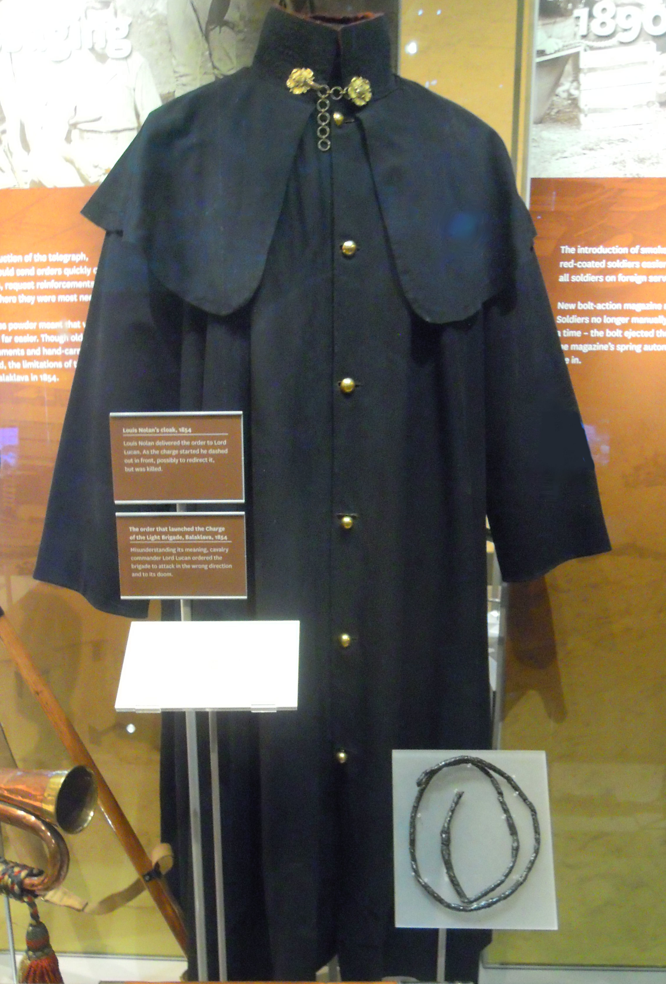 A coat belonging to Edward Louis Nolan displayed in the National Army Museum